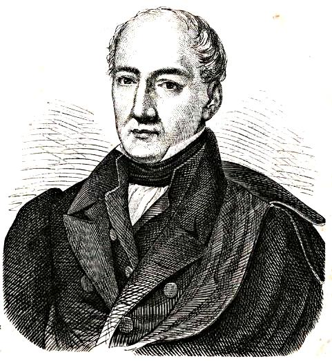 Portrait of Sámuel Hegedüs